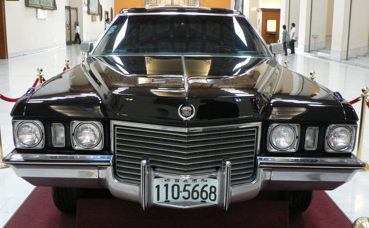 1972 Chiang Kai-shek's Cadillac